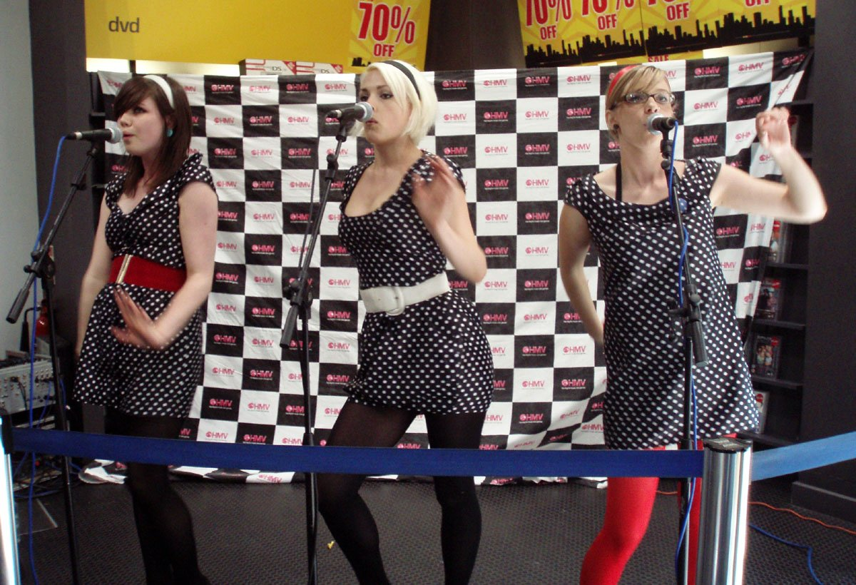 The Pipettes performing at HMV in Southampton, EnglandThe Pipettes